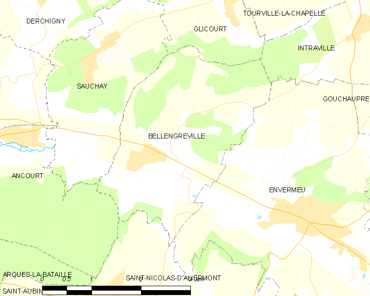 Map of French municipality Bellengreville